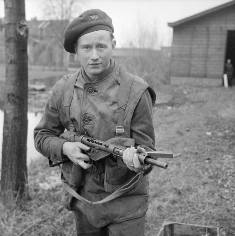 The British Army in North-west Europe 1944-45 Corporal Bennett of the King's Own Yorkshire Light Infantry, armed with a Sten gun and about to go on a fighting patrol, Elst, 2 March 1945.